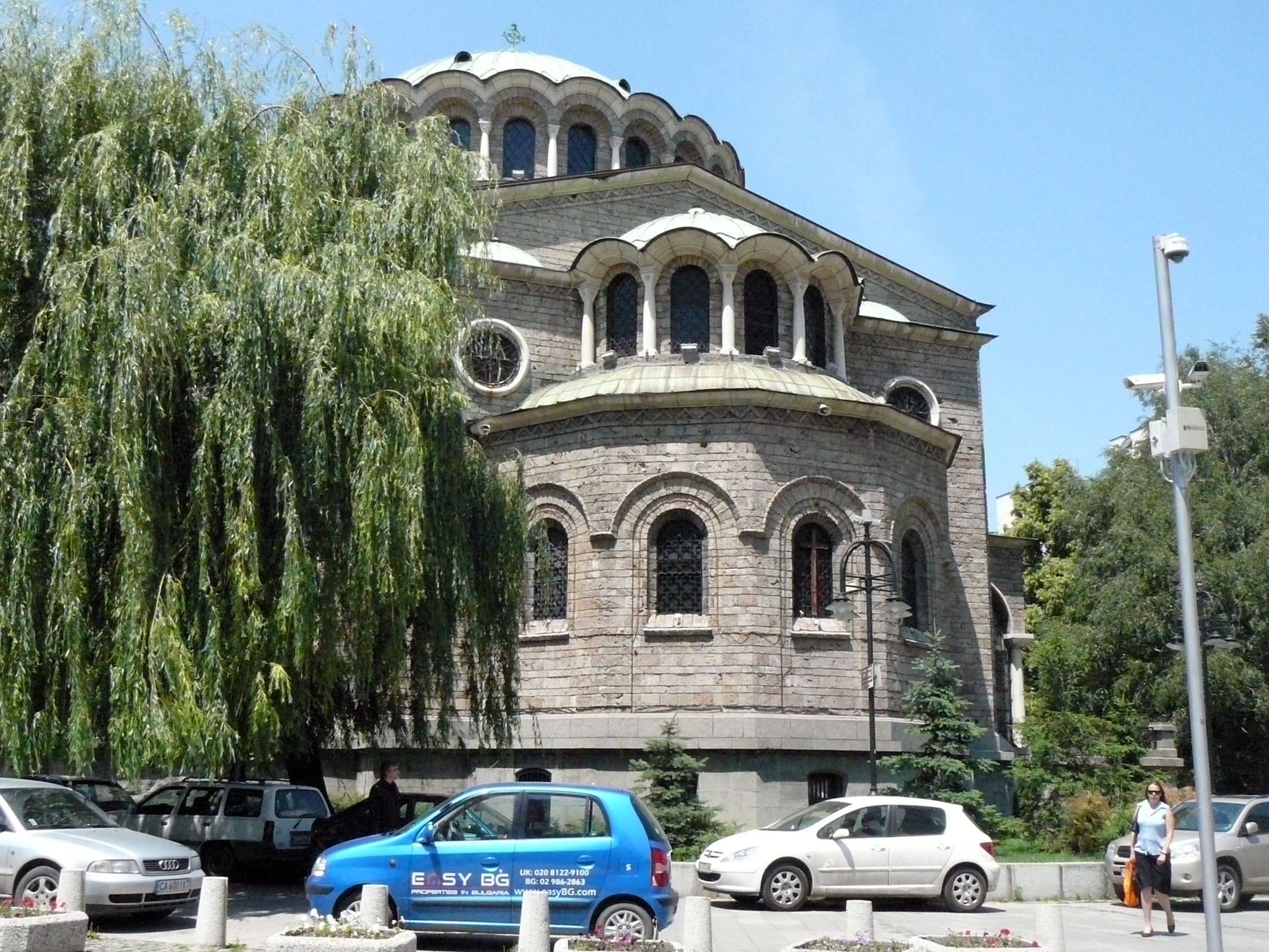 St Nedelya Church in Sofia, Bulgaria